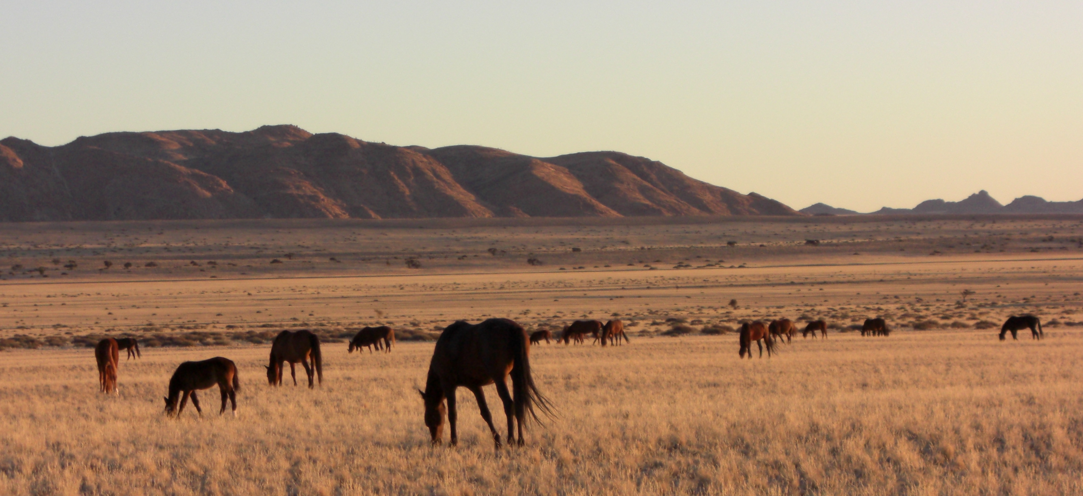 The feral horses of the Namib desert are descended from escaped colonial-era stock - we saw them shortly before dusk at an artificial watering hole.